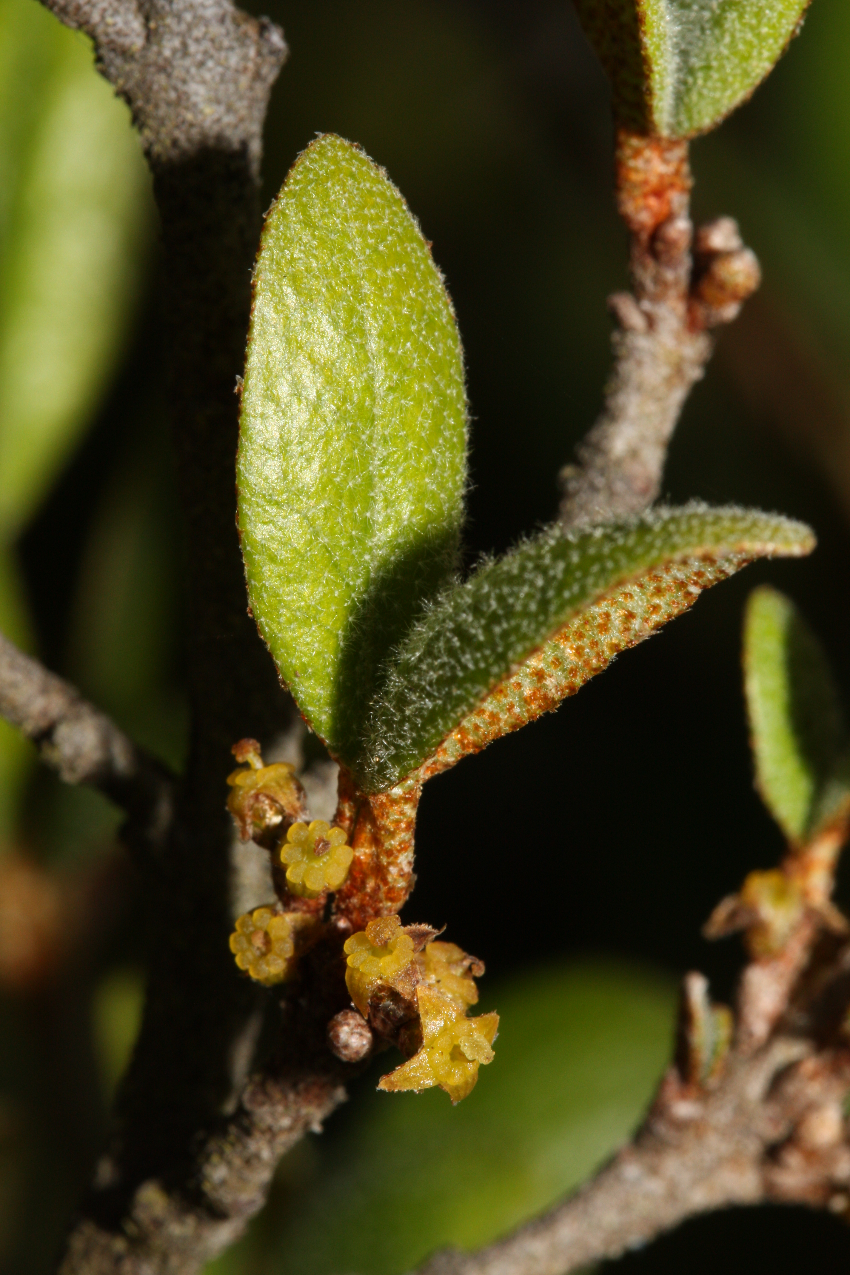 Russet Buffaloberry, Soopolallie, Soapberry; pistilate